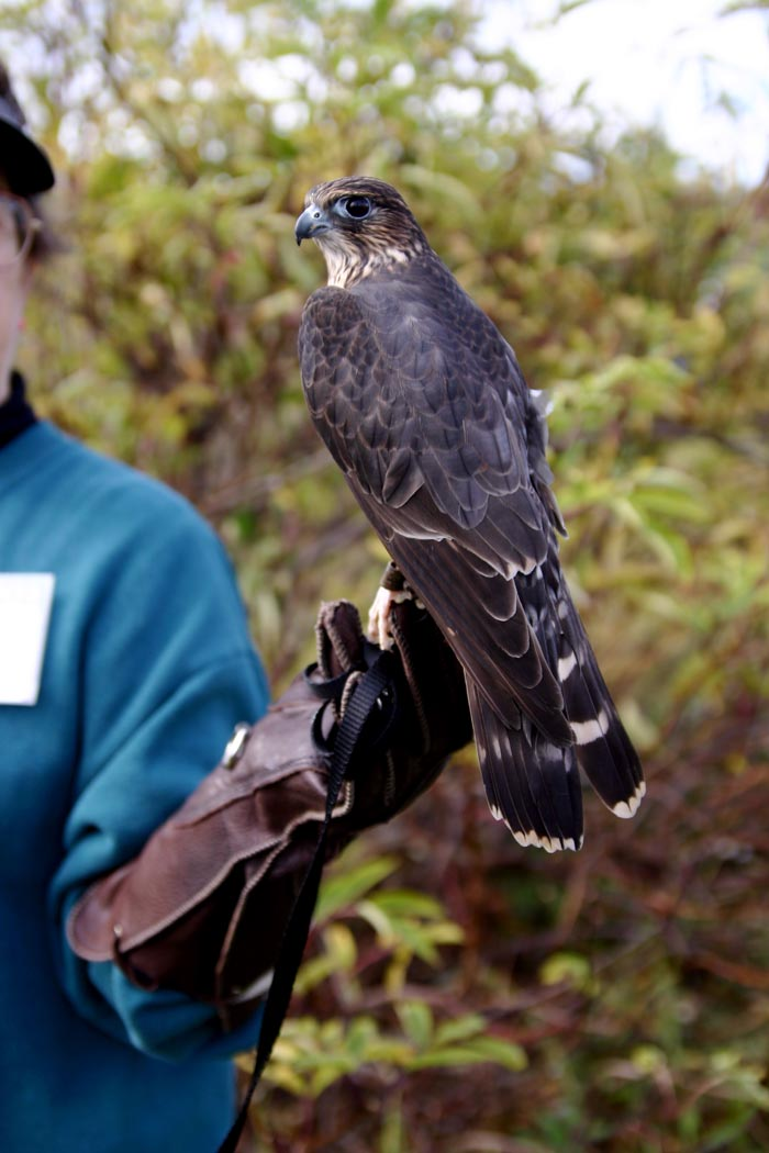 Merlin (Falco columbarius) at Bird Treatment and Learning Center, Potter Marsh, Anchorage, Alaska